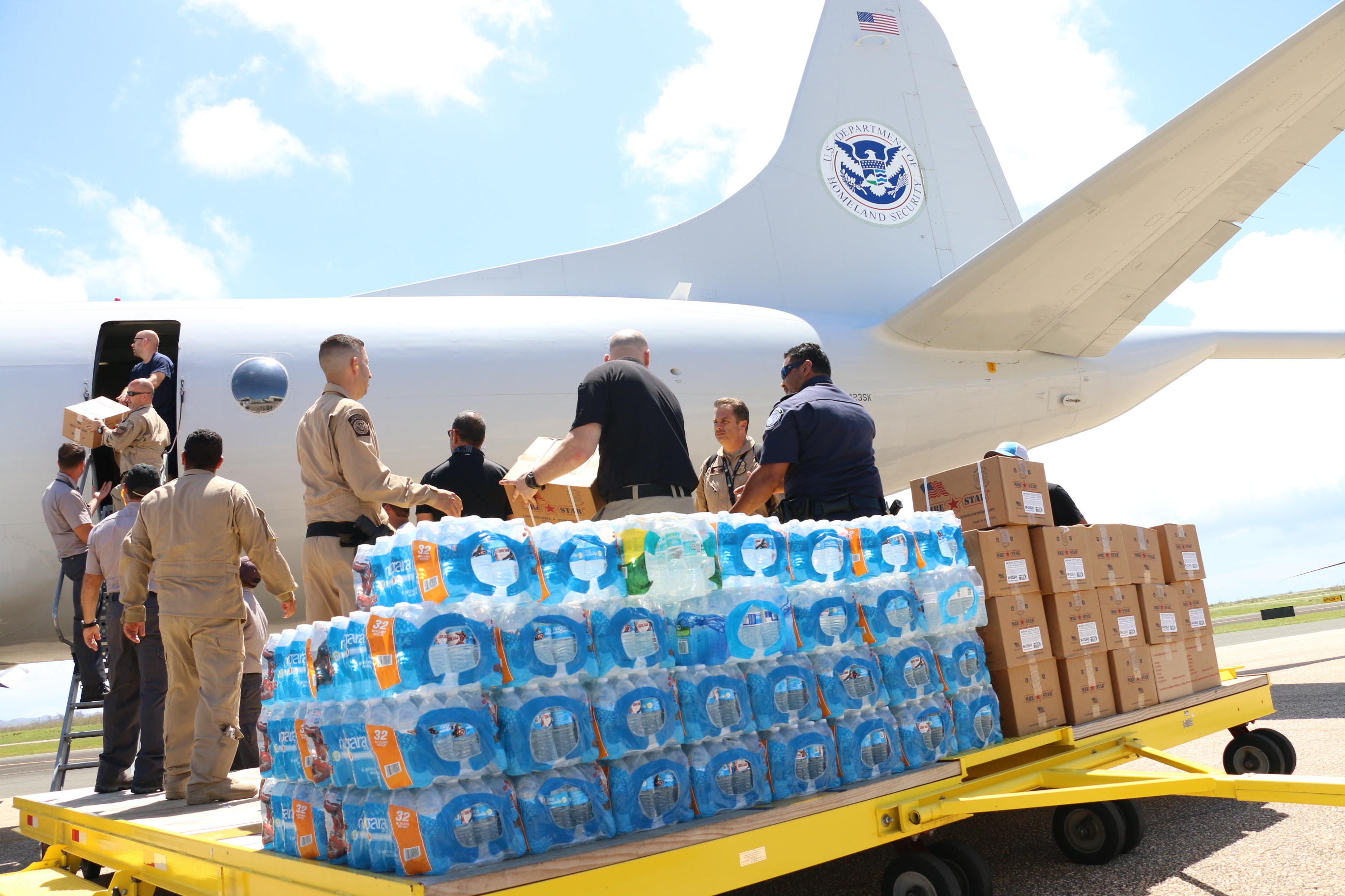 A CBP Air and Marine Operations P-3 aircraft loaded with supplies from Miami Air and Marine Branch is quickly offloaded by CBP employees and PME maintenance personnel at the Caribbean Air and Marine Branch in Aguadilla, Puerto Rico. CBP continues to support those affected by Hurricane Maria. September 29, 2017. Photos by Rob Brisley